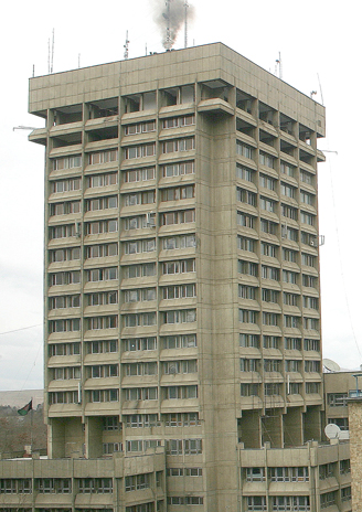 The 18-story building of the Ministry of Communications and Information Technology (MICT) is the tallest building in Kabul City as of now.